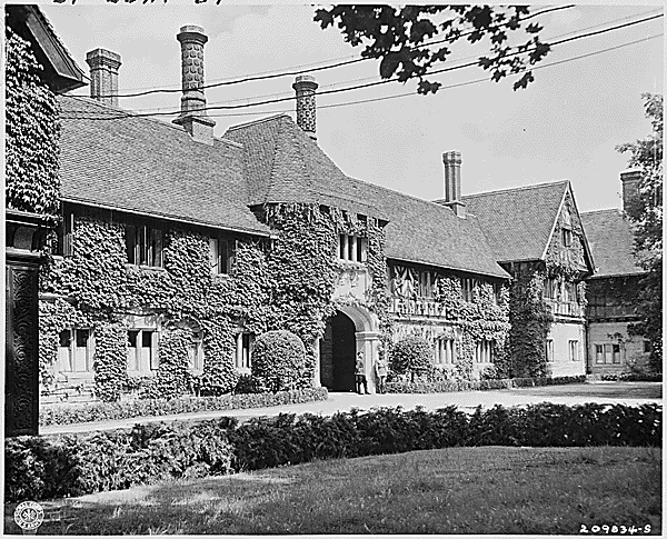 The Schloss Cecilienhof, Potsdam, Germany, site of the Potsdam Conference. Russian officers are on guard at the entrance. Schloss Cecilienhof was formerly the palace of the wife of Wilhelm II, Crown Prince of Germany., 07/13/1945